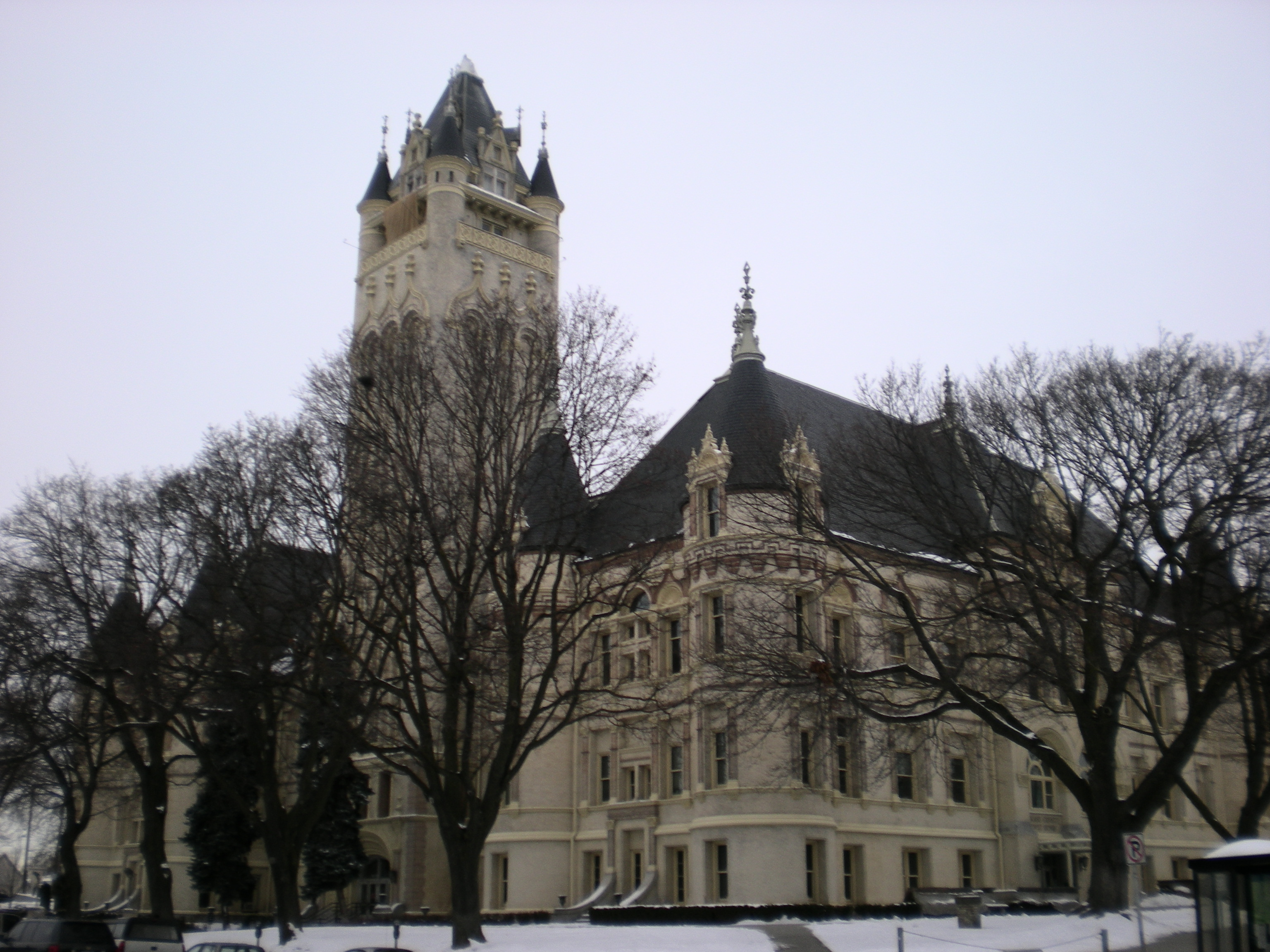 The Spokane County Courthose in Spokane, Washington